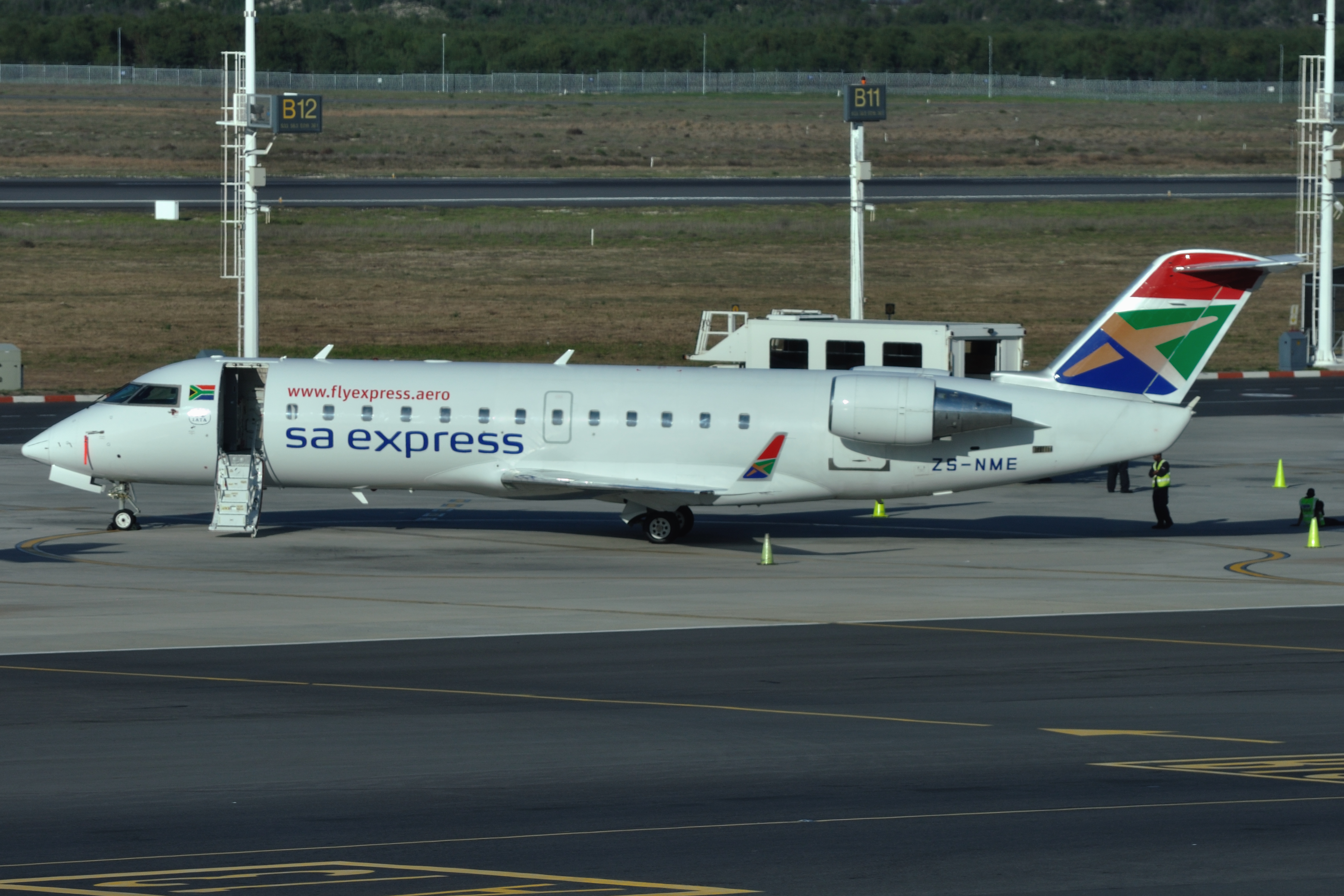 South Africa, spotting in South Africa